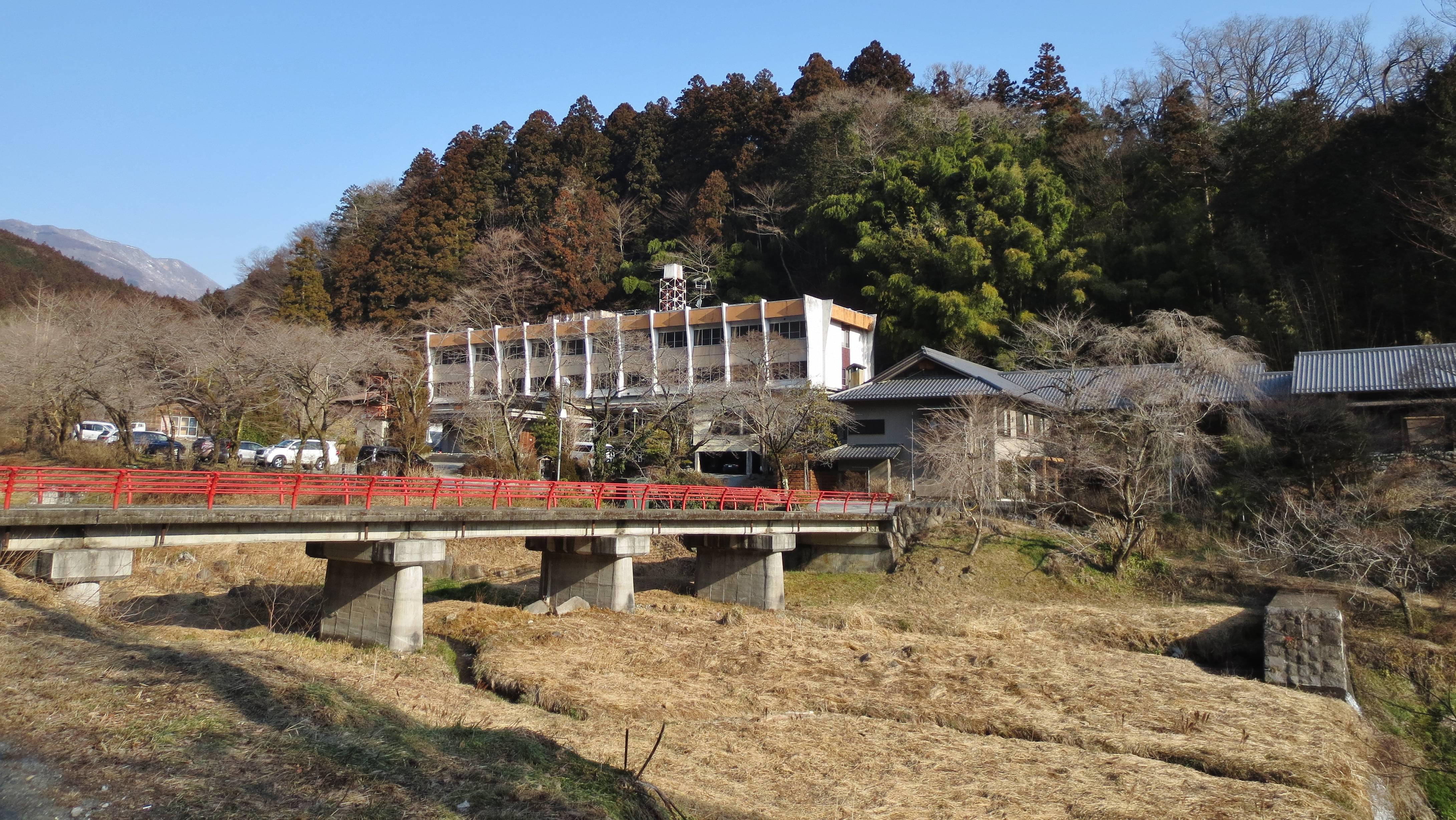 Nashigi Onsen.